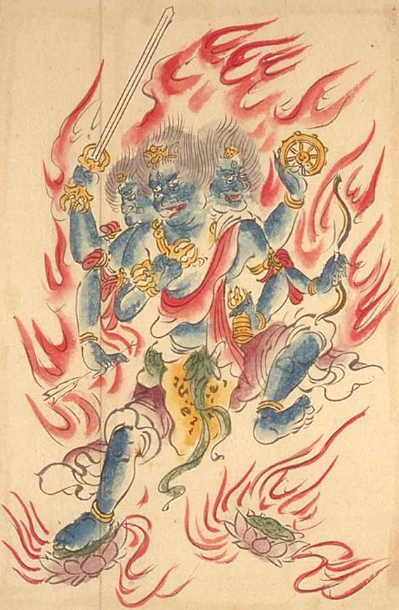 Kongo Yasha Myōō, Buddhist deities of Japan